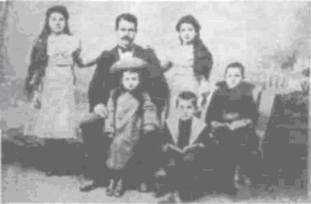 IMARO revolutionary/ies